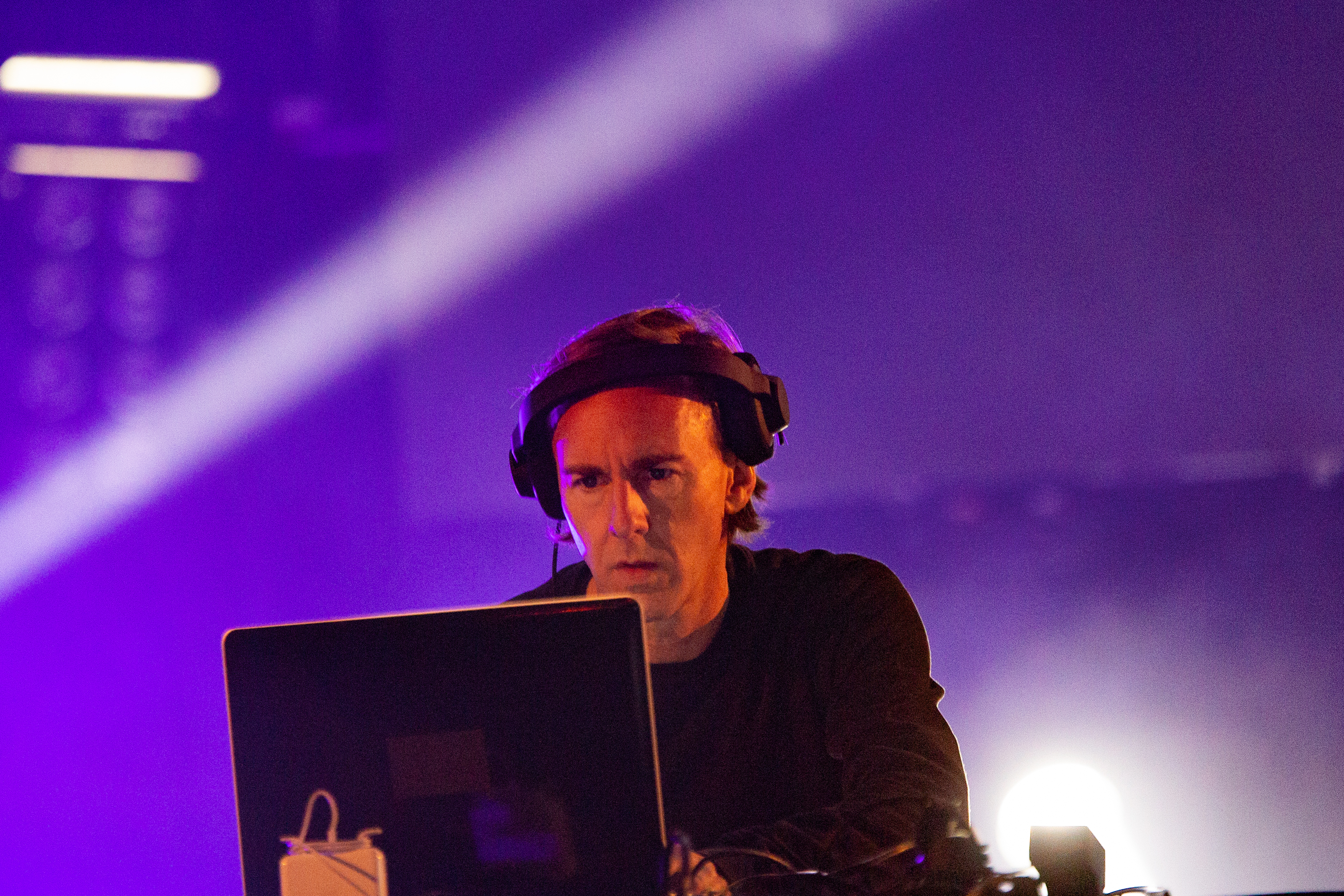 Richie Hawtin at SonneMondSterne 2018, Second Stage